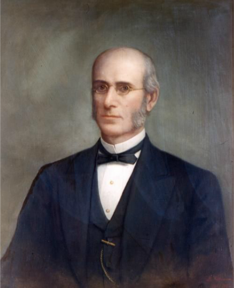 Painting of James Andrew McCauley, President of Dickinson College, Carlisle. Class of 1847; Trustee, 1869-1872; President, 1872-1888.